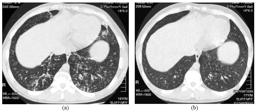 "High resolution computed tomography (HRCT) images of the lower chest in a 16 year-old boy (Case 2) at presentation (A), and 8 weeks later after a 6-week course of erythromycin 250 mg twice daily. The bilateral bronchiectasis and prominent centri-lobular nodules with a tree-in-bud pattern shows marked improvement on the follow-up scan."